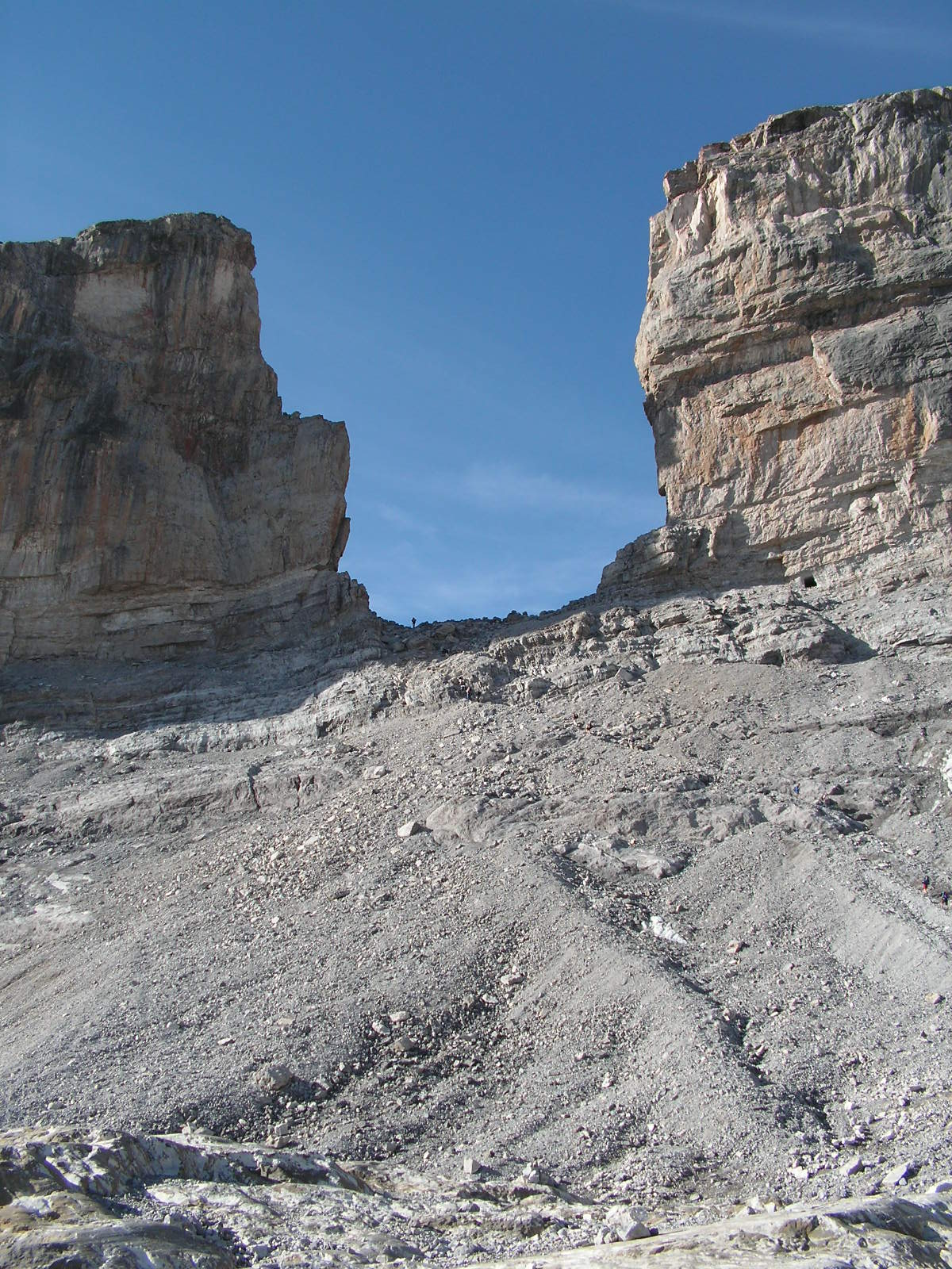 Author Jens Buurgaard Nielsen. Taken on august 7, 2005 at 9 in the morning. View from Refuge des Sarradets (2587m) to La Breche De Roland (2807m).